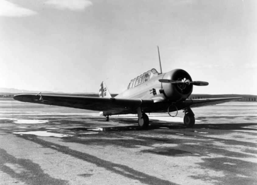 A U.S. Army Air Corps North American BC-1, the initial production version with 600hp R-1340-47 engine.